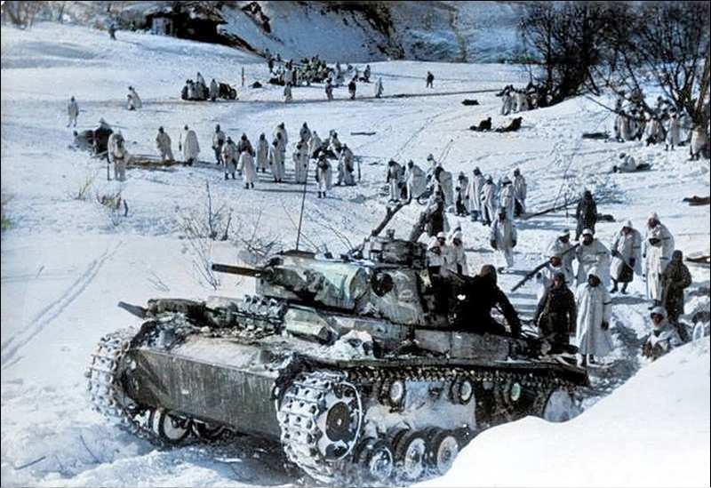 This is a retouched picture, which means that it has been digitally altered from its original version. Modifications: recolored by User:Ruffneck88. == Recolored Version of this image. Russland, Kesselschlacht von Demjansk 15px|link= Photographer UnknownArchive description Description provided by the archive when the original description is incomplete or wrong. You can help by reporting errors and typos at Commons:Bundesarchiv/Error reports. Sowjetunion.- Öffnung des Kessels von Demjansk, Panzer im Schnee und deutsche Soldaten mit WintertarnungTitle Russland, Kesselschlacht von Demjansk Depicted place RussiaDate Taken on 21 March 1942Collection German Federal Archives Native nameDas BundesarchivLocationKoblenz (headquarters)Coordinates50° 20′ 32.71″ N, 7° 34′ 21.22″ E Established1946Web page control : Q685753 VIAF: 137346469 ISNI: 0000 0004 0555 2728 LCCN: n92025526 NLA: 36455393 Open Library: OL55798A WorldCat institution QS:P195,Q685753Current location Sammlung von Repro-Negativen (Bild 146)Accession number Bild 146-1972-042-42 Source This image was provided to Wikimedia Commons by the German Federal Archive (Deutsches Bundesarchiv) as part of a cooperation project. The German Federal Archive guarantees an authentic representation only using the originals (negative and/or positive), resp. the digitalization of the originals as provided by the Digital Image Archive.